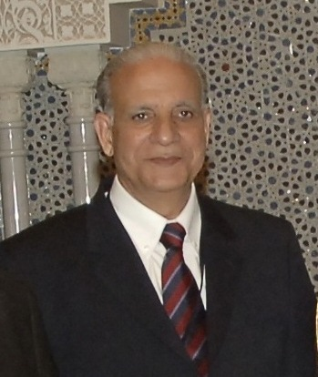 Ahmad Fouad Basha